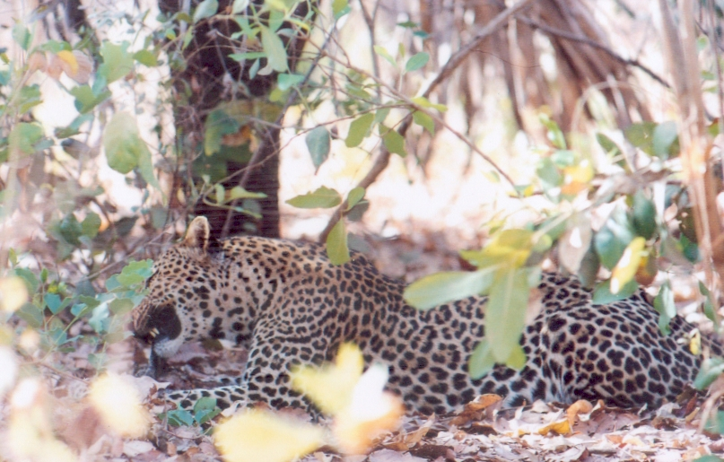 Panthera pardus pardus. West Africa (border between Guinea and Senegal)